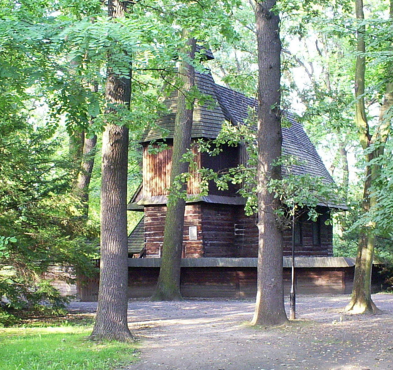 John of Nepomuk church in Park Szczytnicki (Szczytniki Park) in Wrocław, Poland.